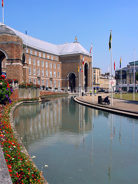 Bristol Council House. View from one of the ramps leading upto the main entrance.